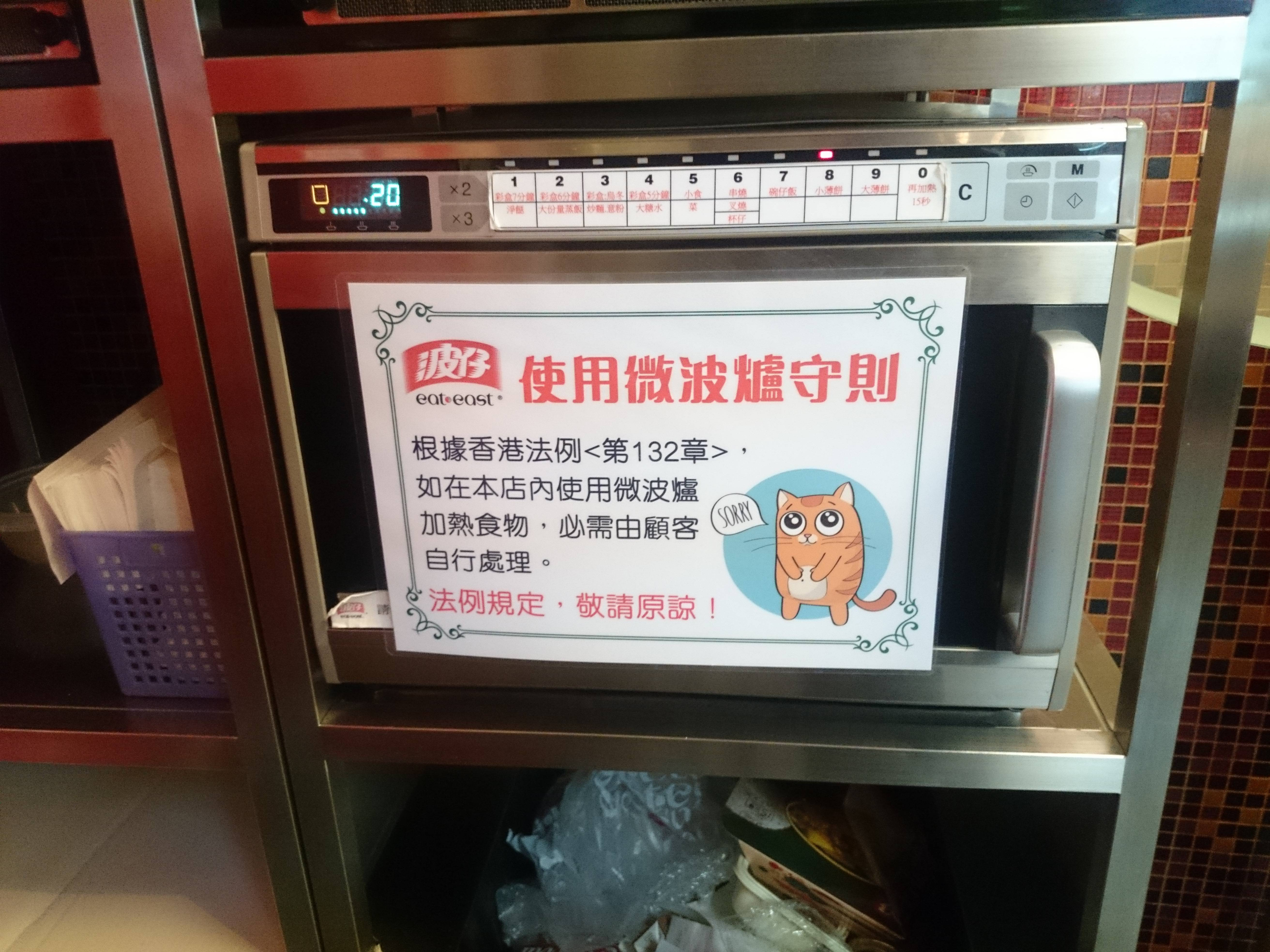 A Eateast's microwave 中文（香港）: 波仔微波爐